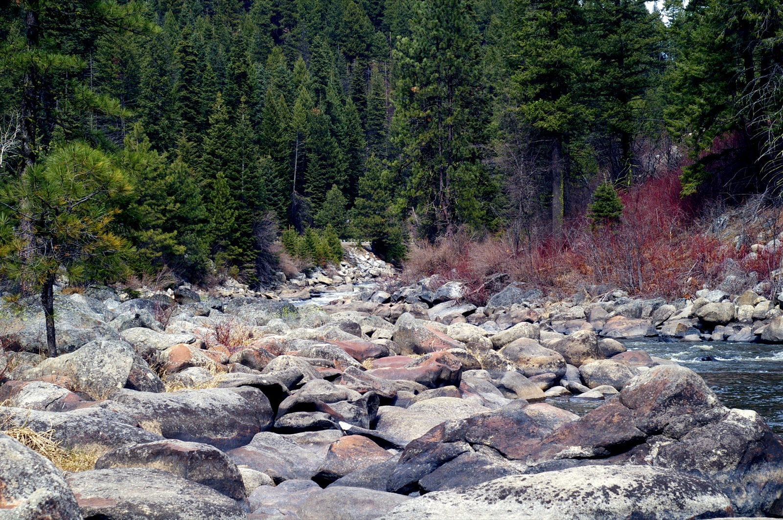 River rocks in Boise National Forest, Idaho.